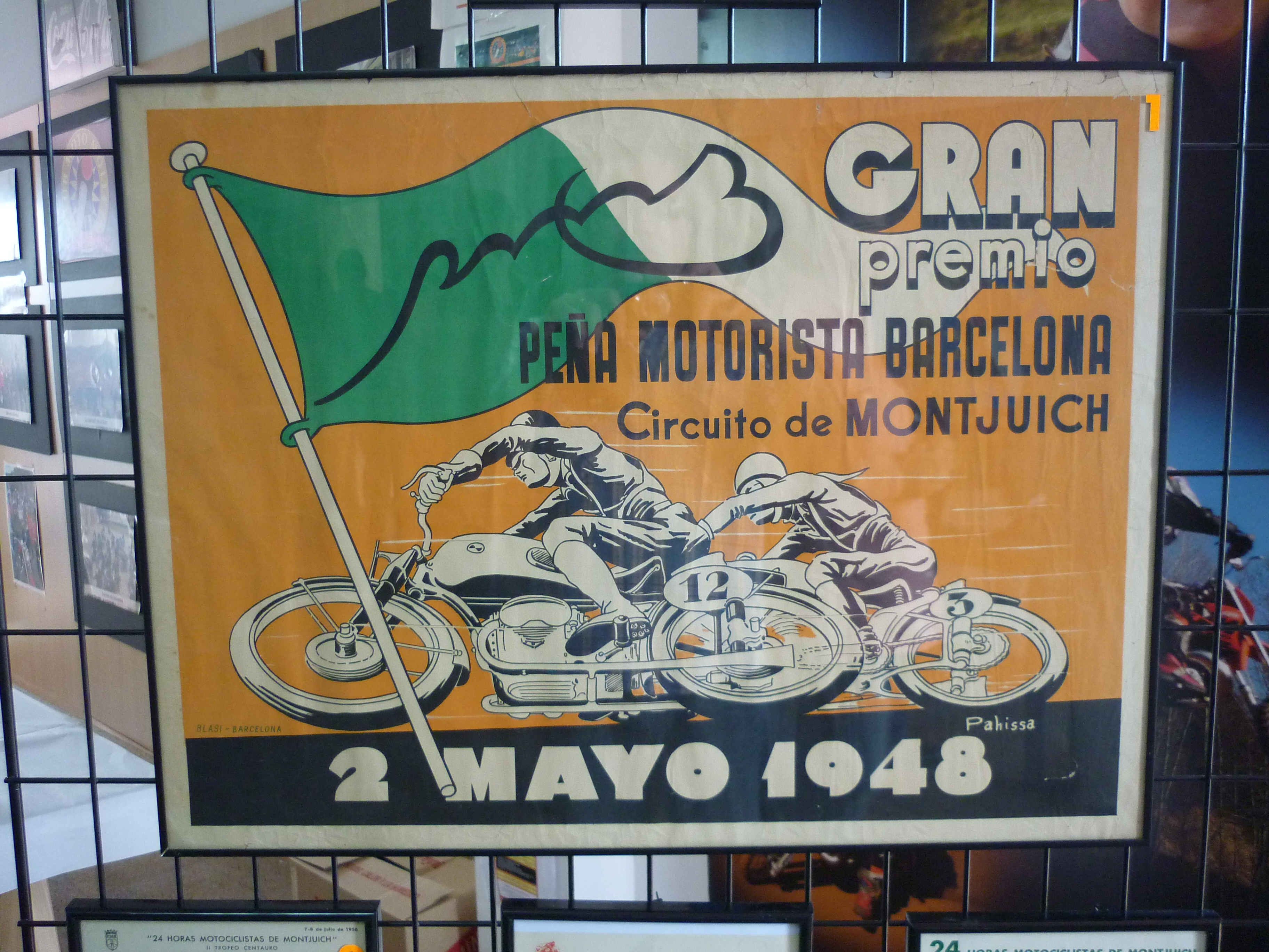 Poster of Barcelona Grand Prix 1948, held at Circuit de Montjuïc in Barcelona, Catalonia. Illustration made by Jaume Pahissa